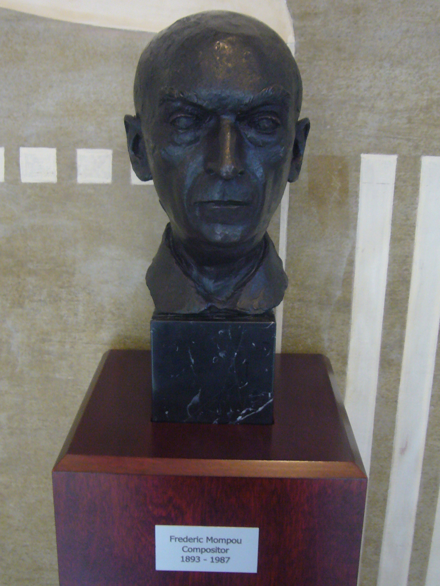 Frederic Mompou i Dencausse - bust